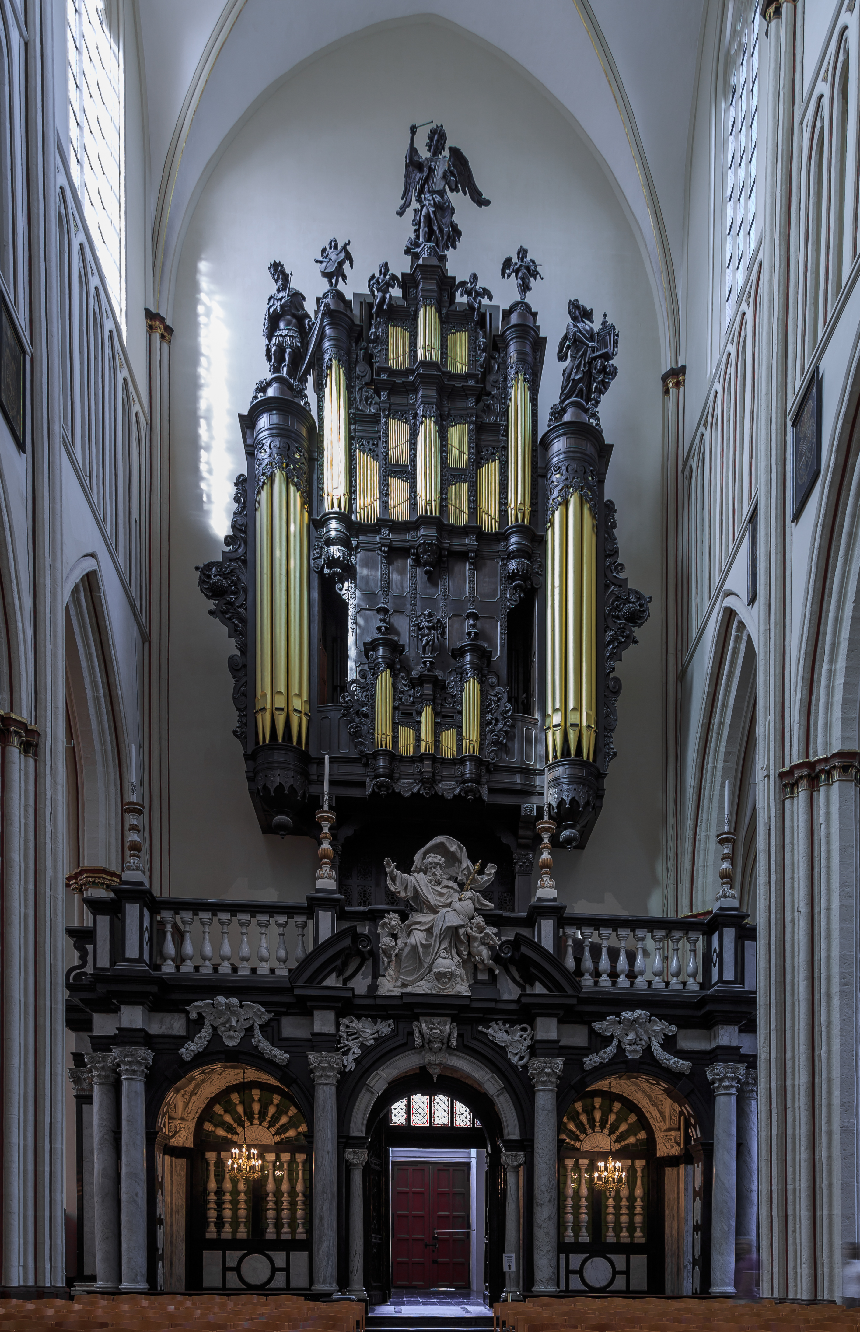 Bruges, Belgium: Organ of Sint-Salvatorskathedraal